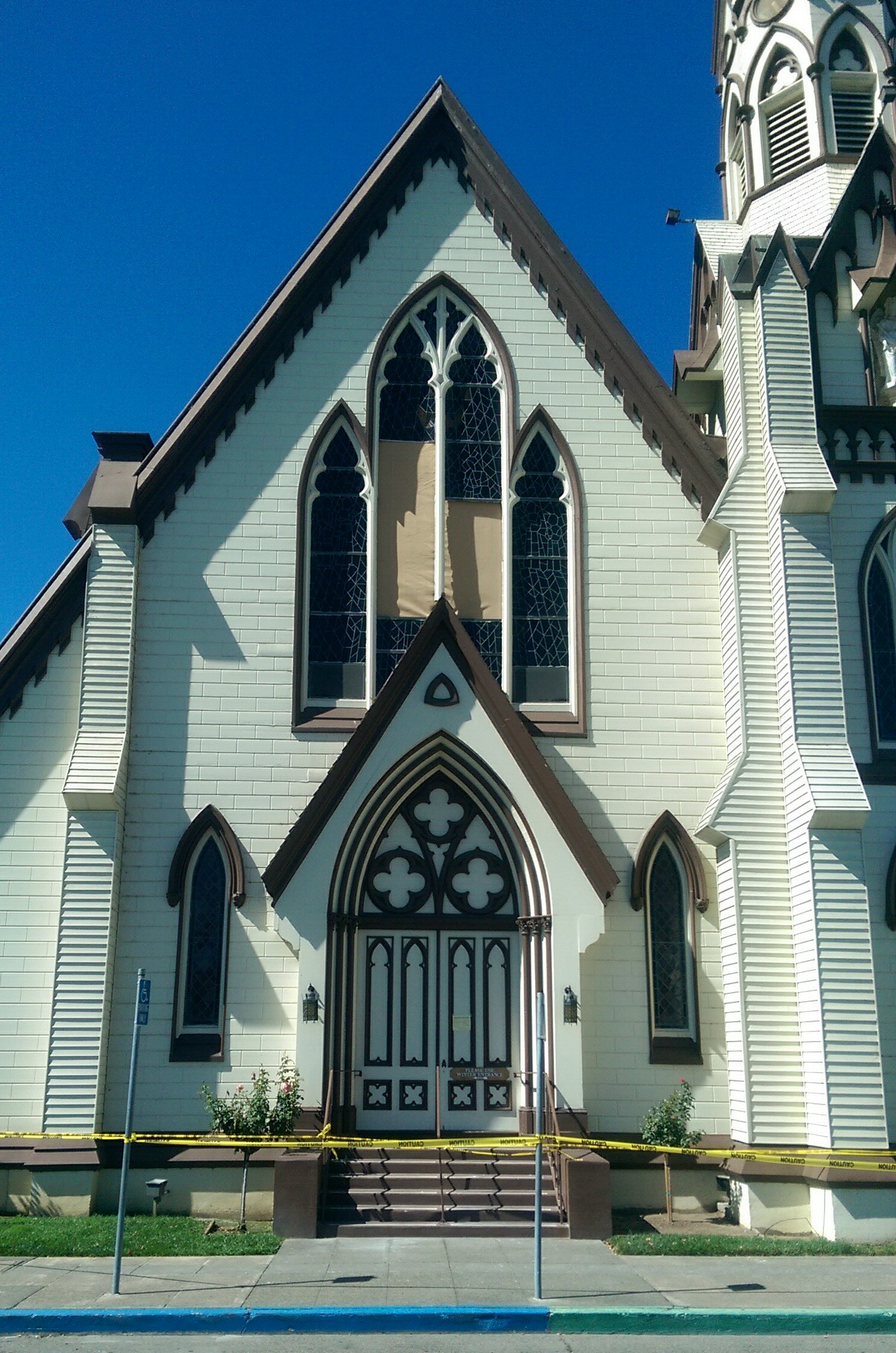 Broken stained glass window at the First Presbyterian Church in Napa, California. Photo by Jim Heaphy.